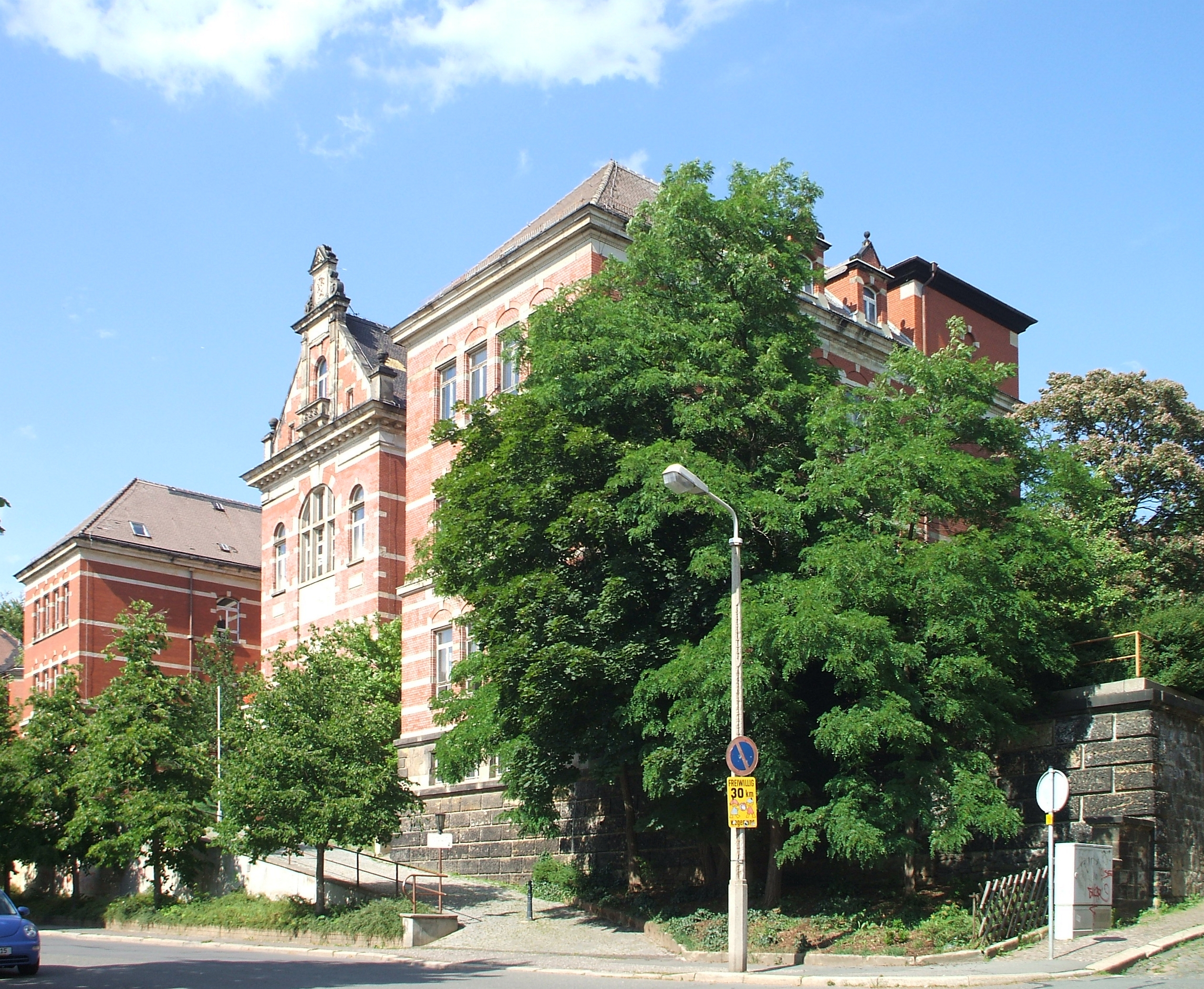 former Schiller school, Gera, Germany